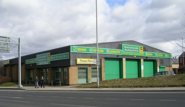 Nationwide Autocentre - Manchester Road